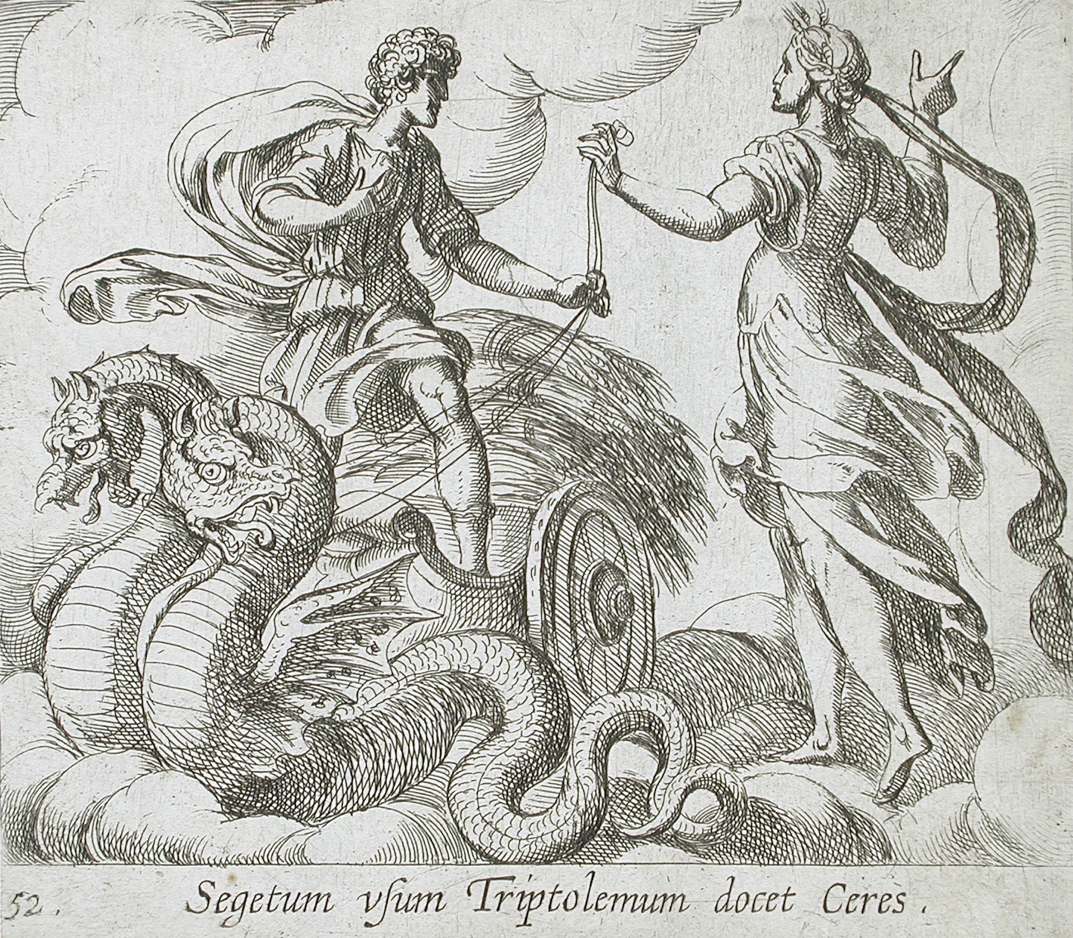 Italy, published 1606 Alternate Title: Segetum usum Triptolemum docet Ceres Series: The Metamorphoses of Ovid, pl. 52 Edition: Second edition Prints; etchings Etching Los Angeles County Fund (65.37.136) Prints and Drawings